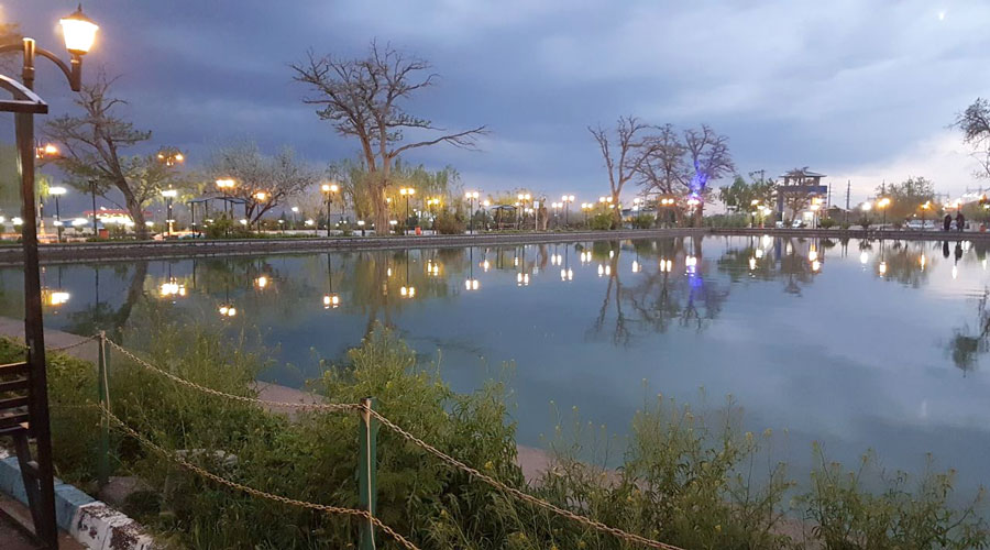 پارک بزرگ ایرینجی ممقان